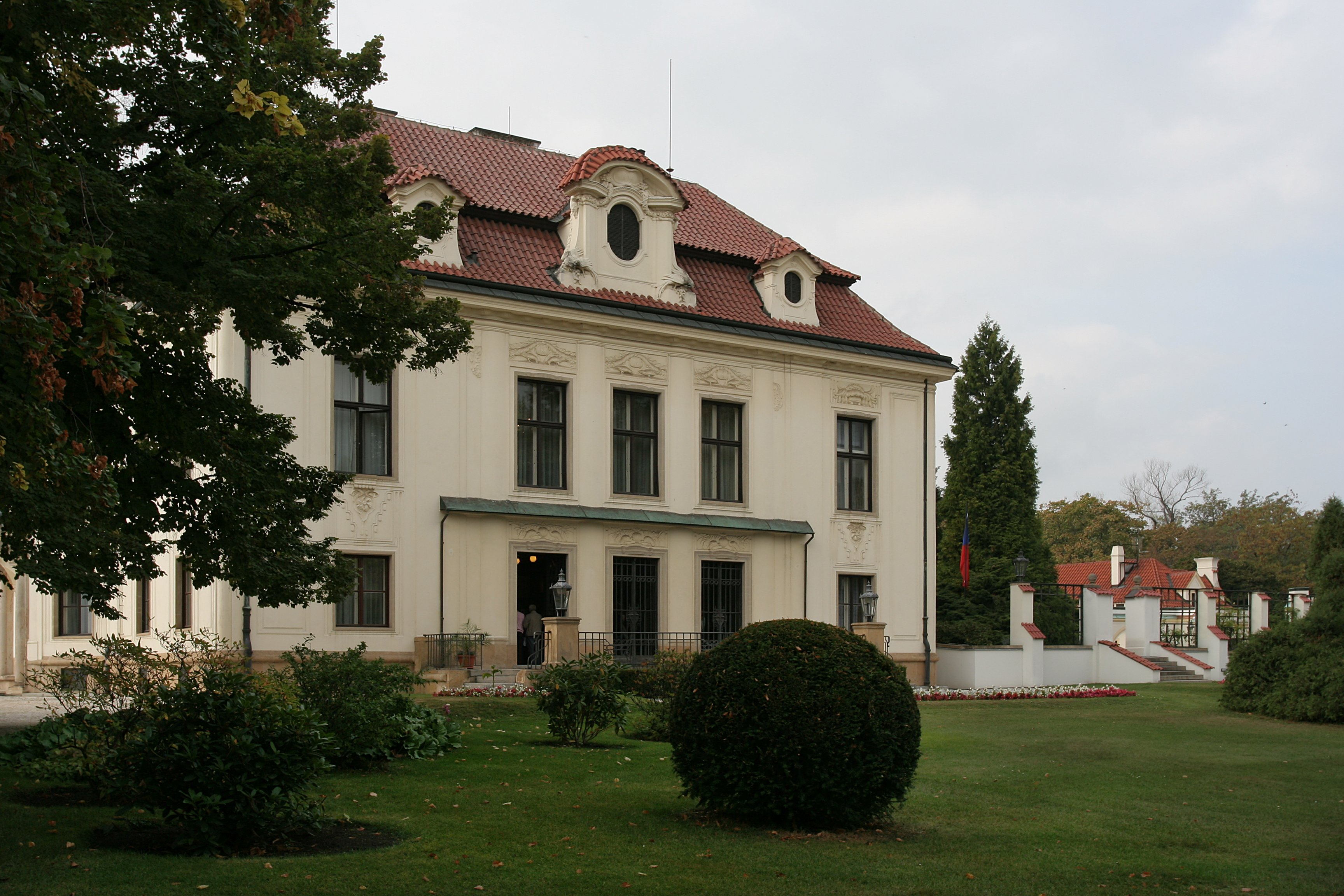 Kramářova vila, residence of Czech prime ministersview from the garden